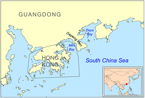 This is a map showing the location of the Dapeng Peninsula.